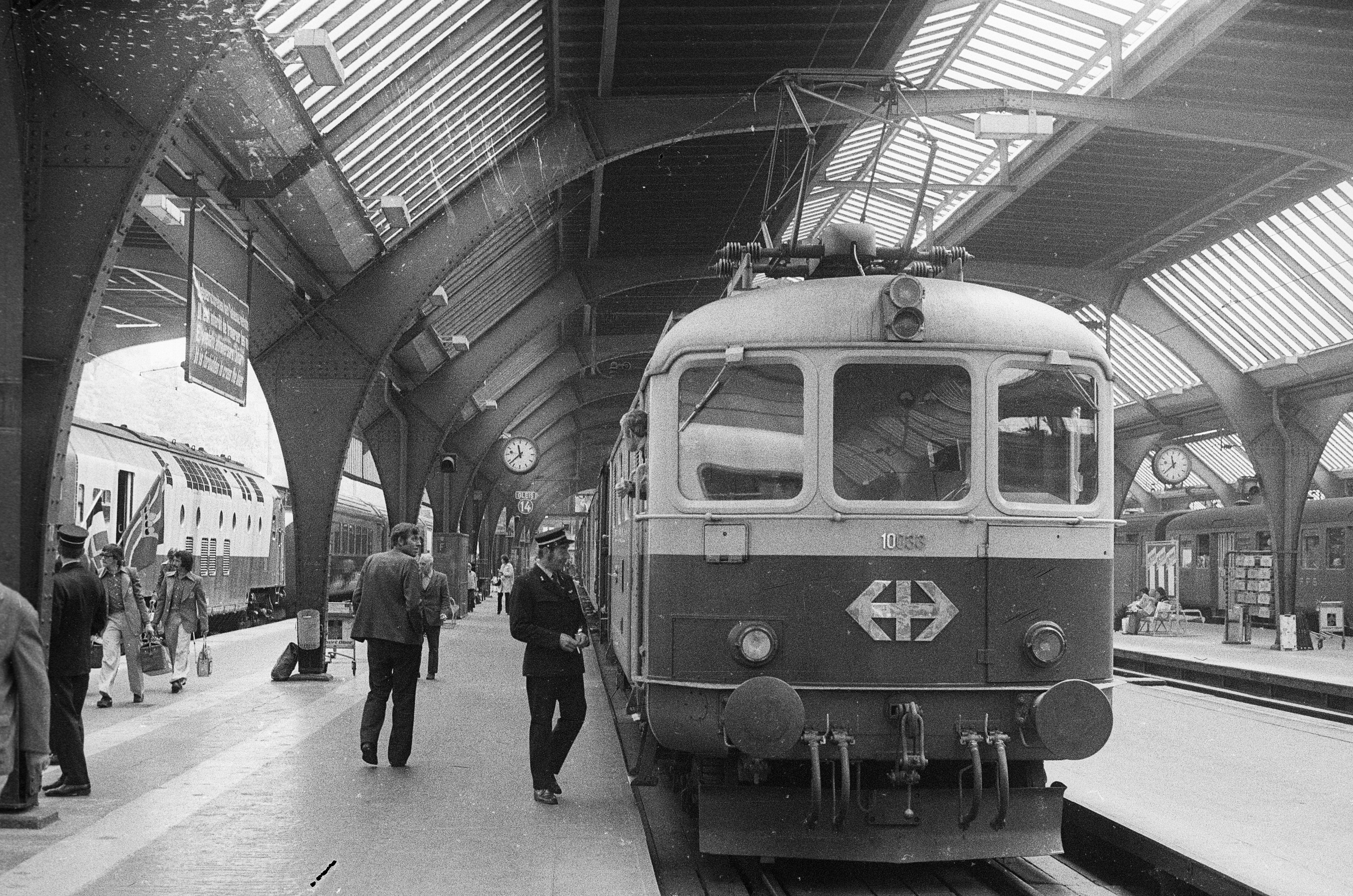 SBB CFF FFS Re 4/4 I at Zürich HB railway station.